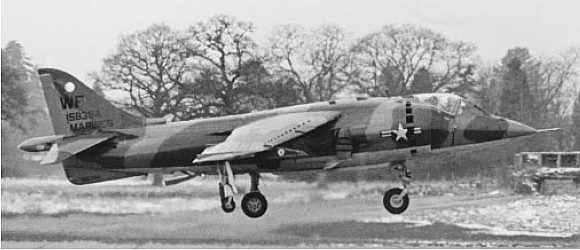 A Hawker AV-8A Harrier (BuNo 158384) of U.S. Marine Corps attack squadron VMA-513 Flying Nightmares, ca. 1970. The AV-8A 158384 was one of the original batch of Hawker Harrier Mk 50 purchased for the USMC. It was later converted to the YAV-8C and crashed on 5 September 1980 because of loss of power on takeoff from the USS Tarawa (LHA-1).